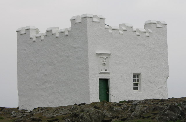 May Isle first lighthouse